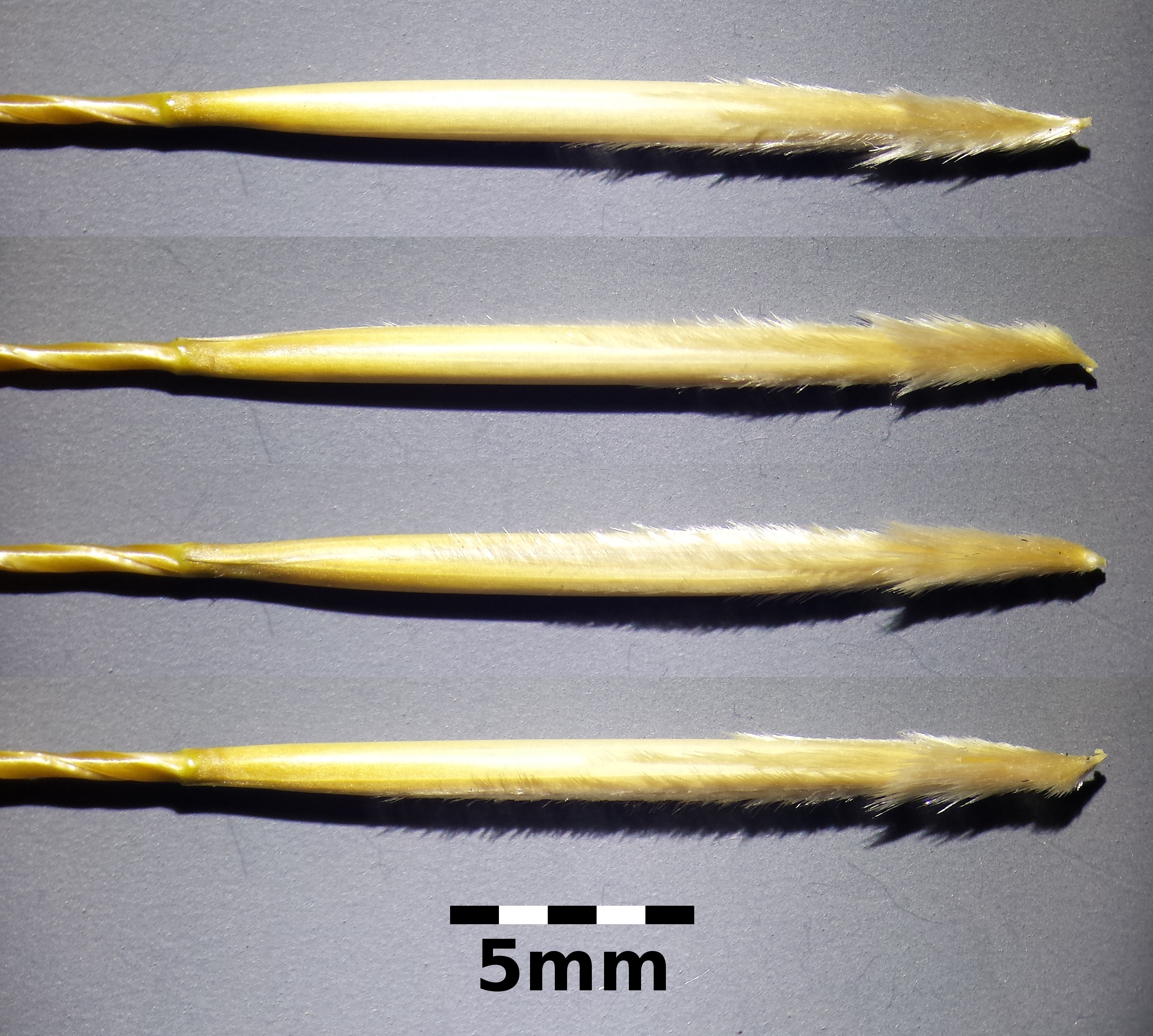 Fruit, seen from four sides Taxon: Stipa tirsa (sensu Fischer et al. EfÖLS 2008 ISBN 978-3-85474-187-9; det. W. Adler 2014-06-21) Location: Heidberg bei Wildendürnbach, district Mistelbach, Lower Austria - ca. 250 m a.s.l. Habitat: dry grassland on ballast